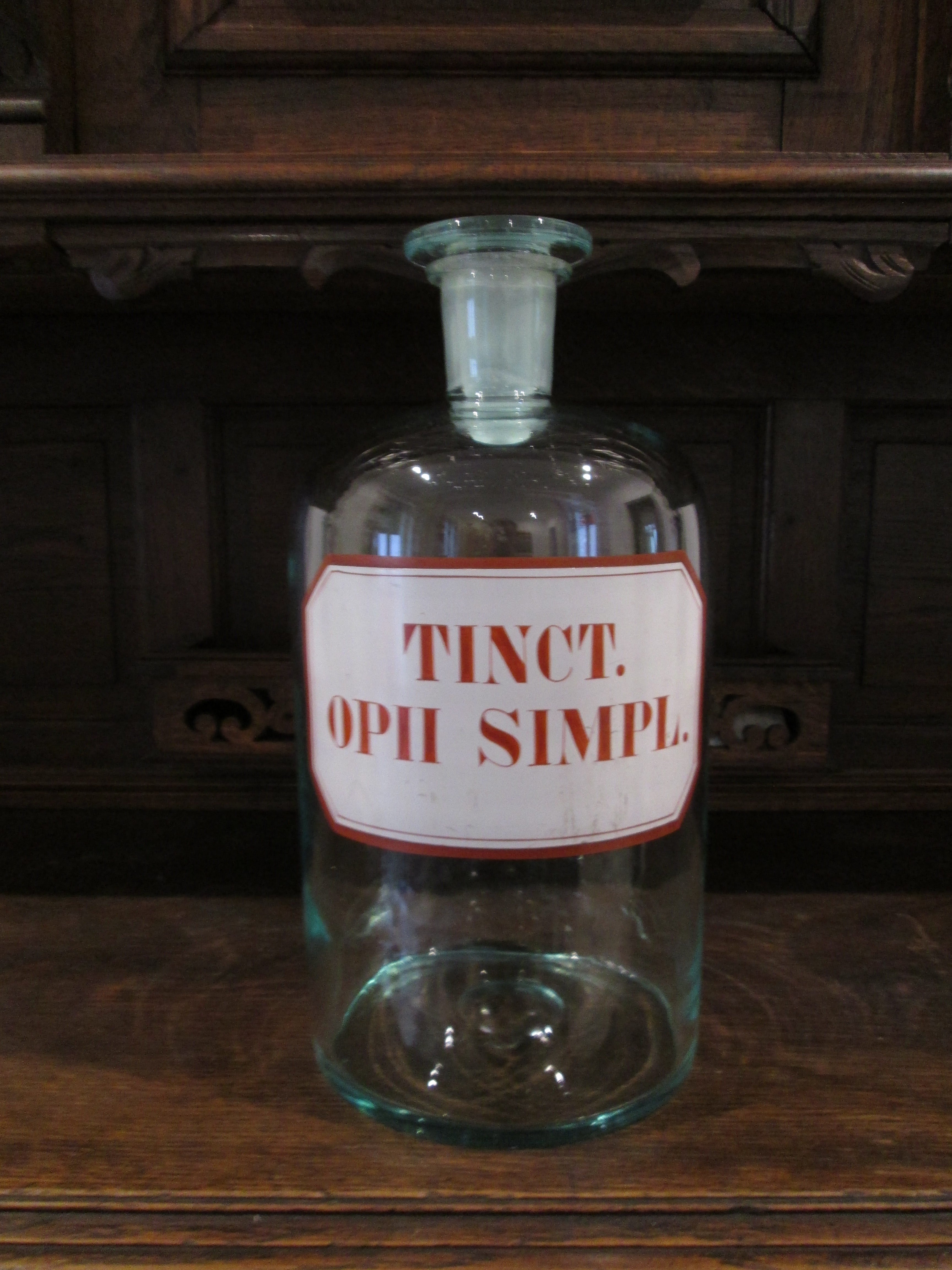 Bottle for simple Opium tincture used in pharmacies at the end of the 19. and the beginning of the 20. century. The volume is five litres which shows the common use of this medicine in that time.